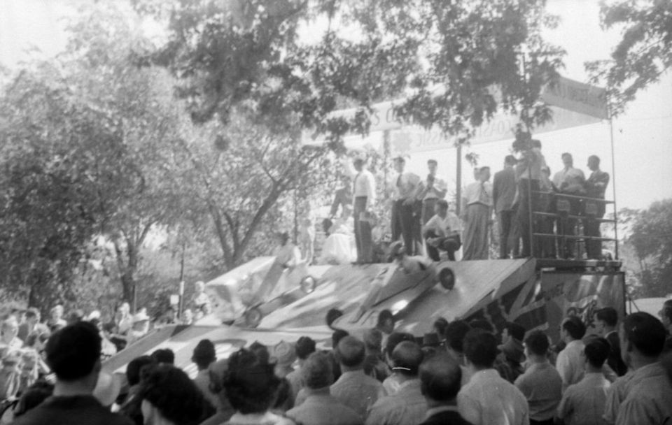 Two competitors of the race soap box spring from the ramp upon removal of the barrier.